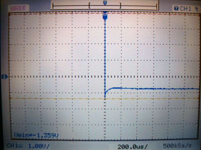 Digital oscilloscope waveform measuring back emf of a discharging solenoid. Protected by a flyback diode wired in parallel.